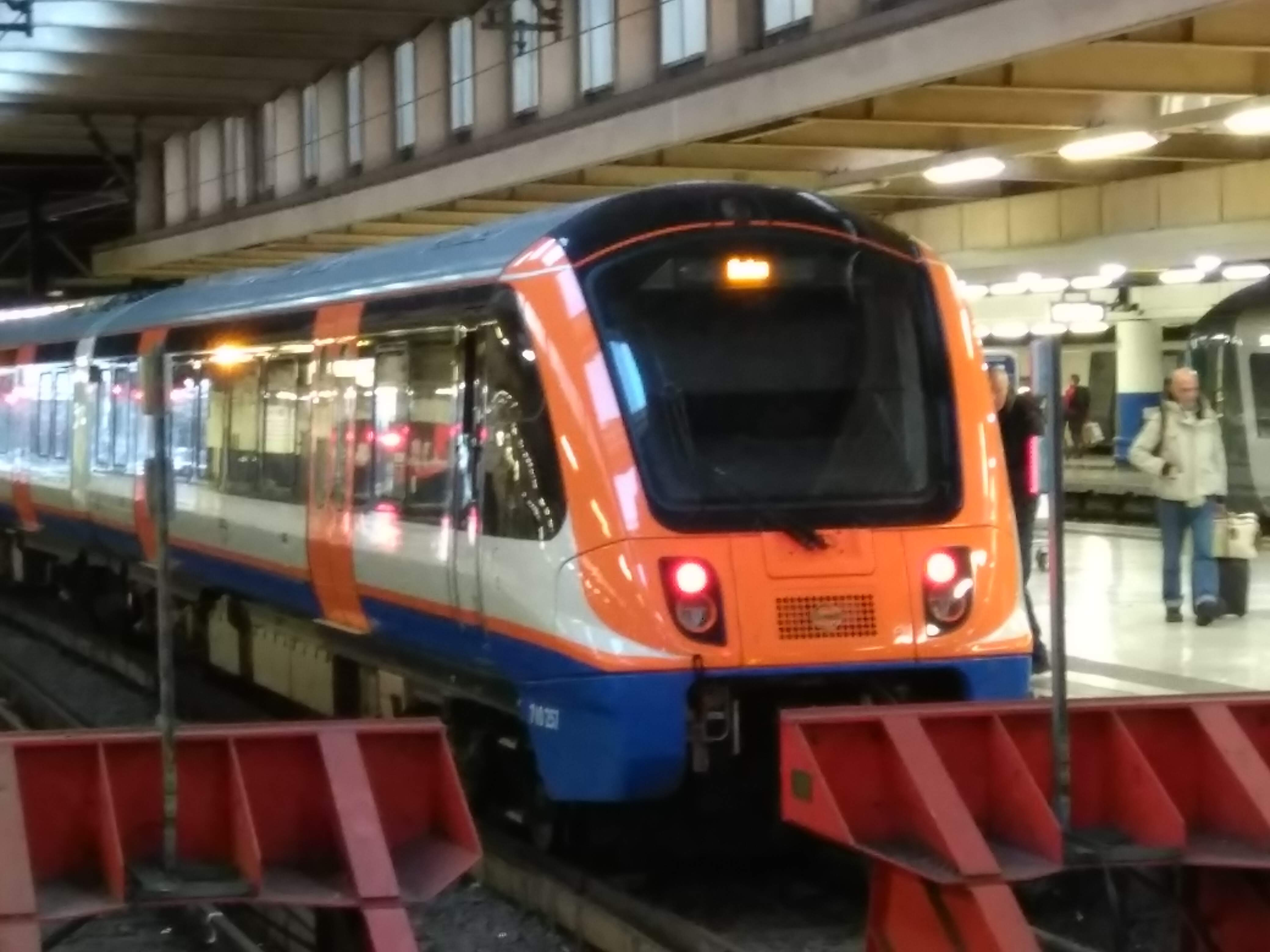 London Overground Class 710 unit 710257 at London Euston station